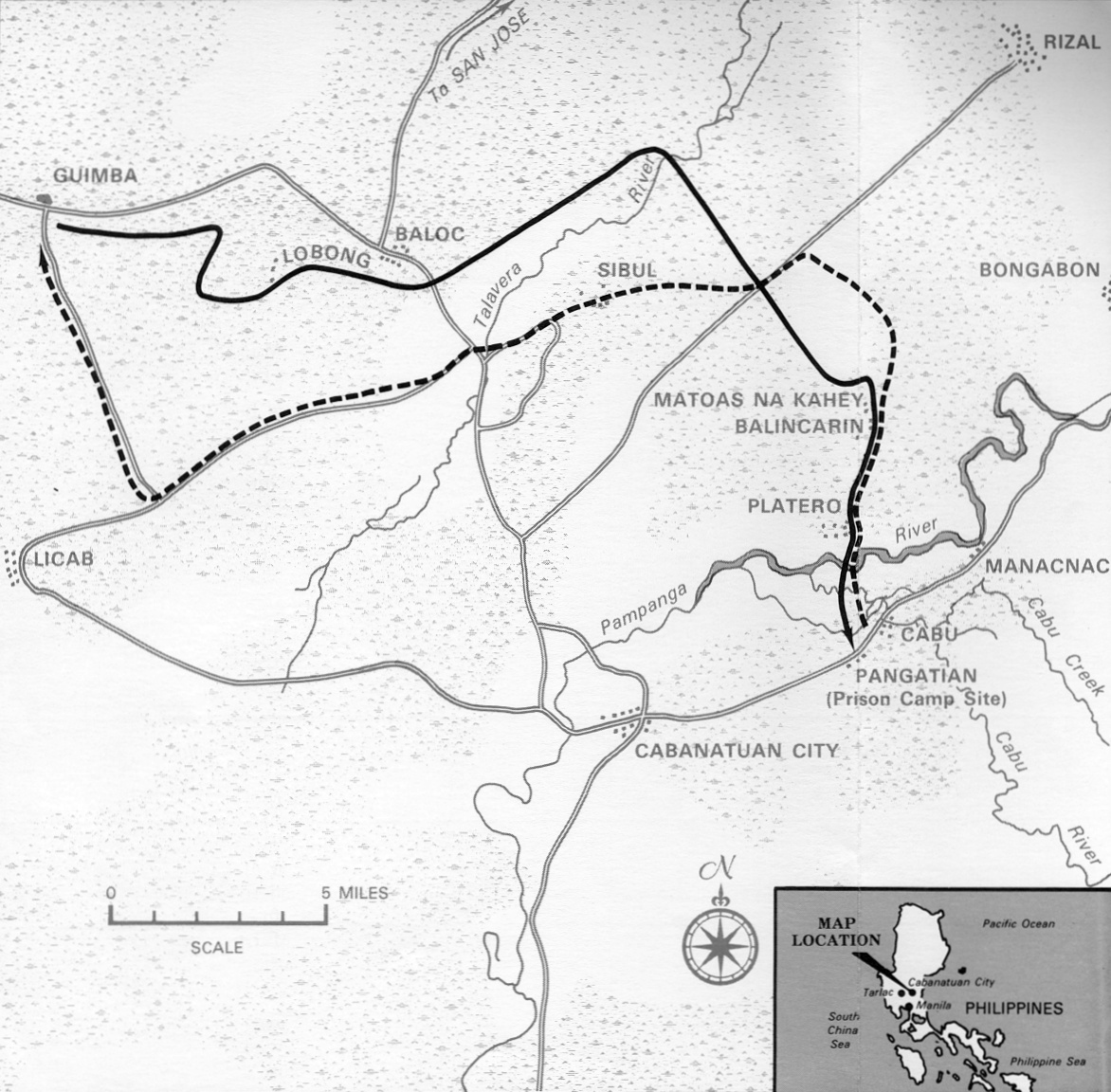 Map of the routes taken by the US Rangers in their Raid at Cabanatuan